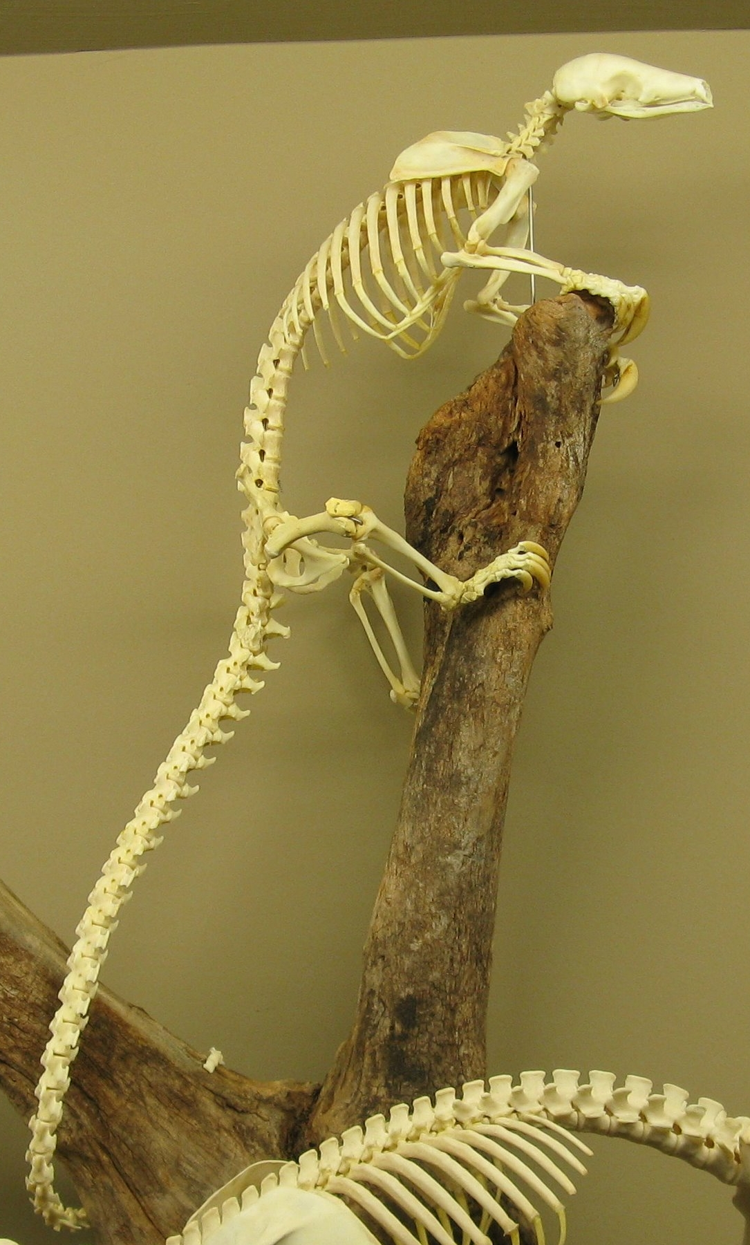 A Tree Pangolin Skeleton on Exhibit at The Museum of Osteology.